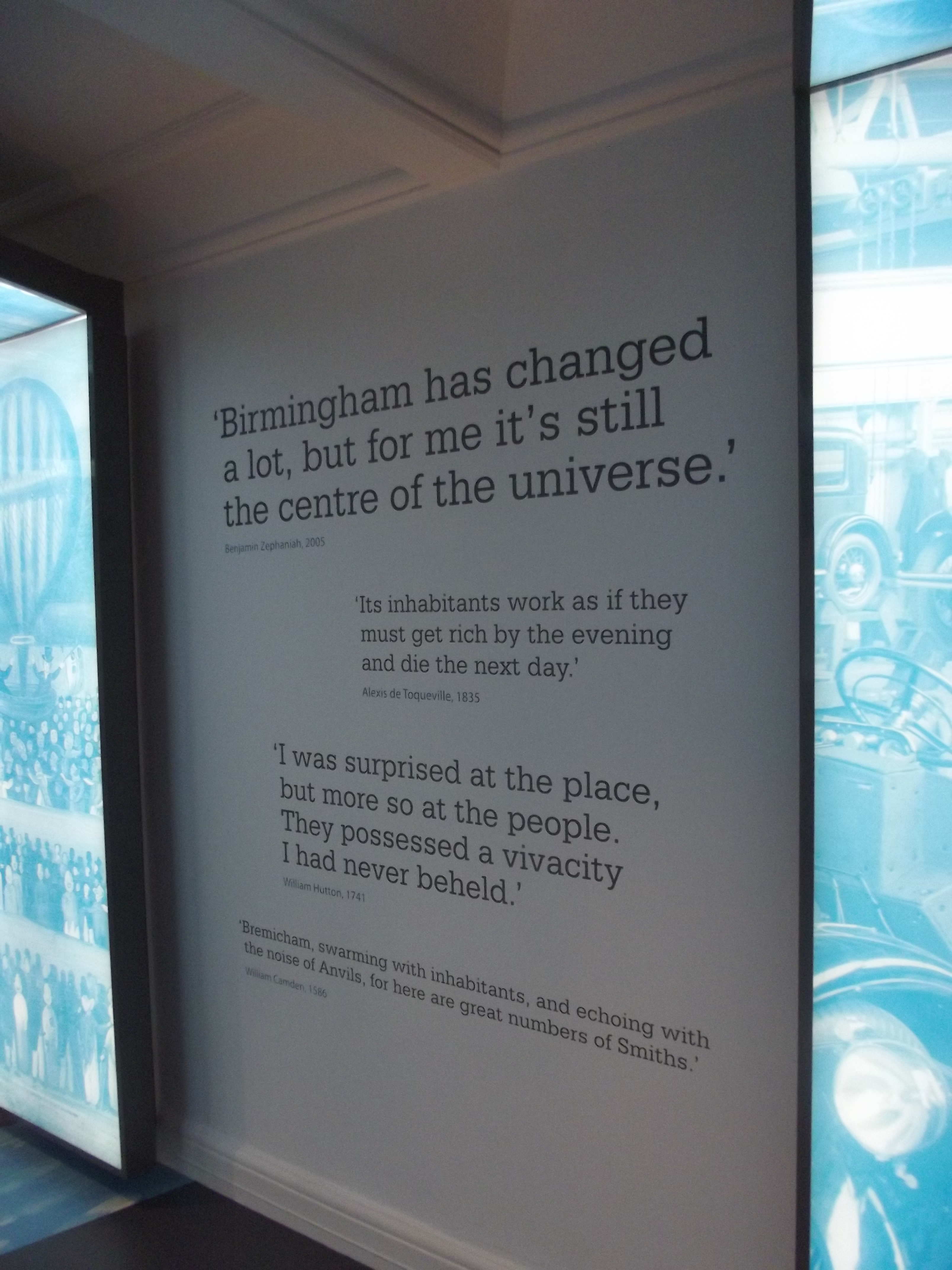 I went back to my local city museum BM & AG, to check out the brand new permanent galleries that is the Birmingham History Galleries (it opened on the 12th October 2012). Free entry Birmingham its people, its history Quotes by famous people of Birmingham. Including Benjamin Zephaniah, 2005 Alexis de Toqueville, 1835 William Hutton, 1741 William Camden, 1586